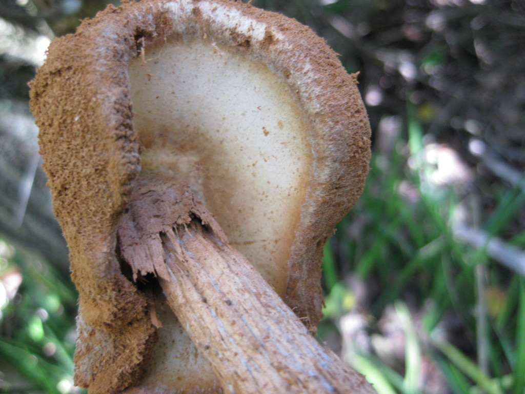 The stalked puffball fungus, species Battarrea phalloides (Dicks.) Pers. Photographed in Oahu, Hawaii, USA. Notes: "Found these growing right by the beach. Sandy soil, probably decomposing leaf litter. Dry, powdery texture. Woody, fibrous stem. Didn’t see any volva at the base."